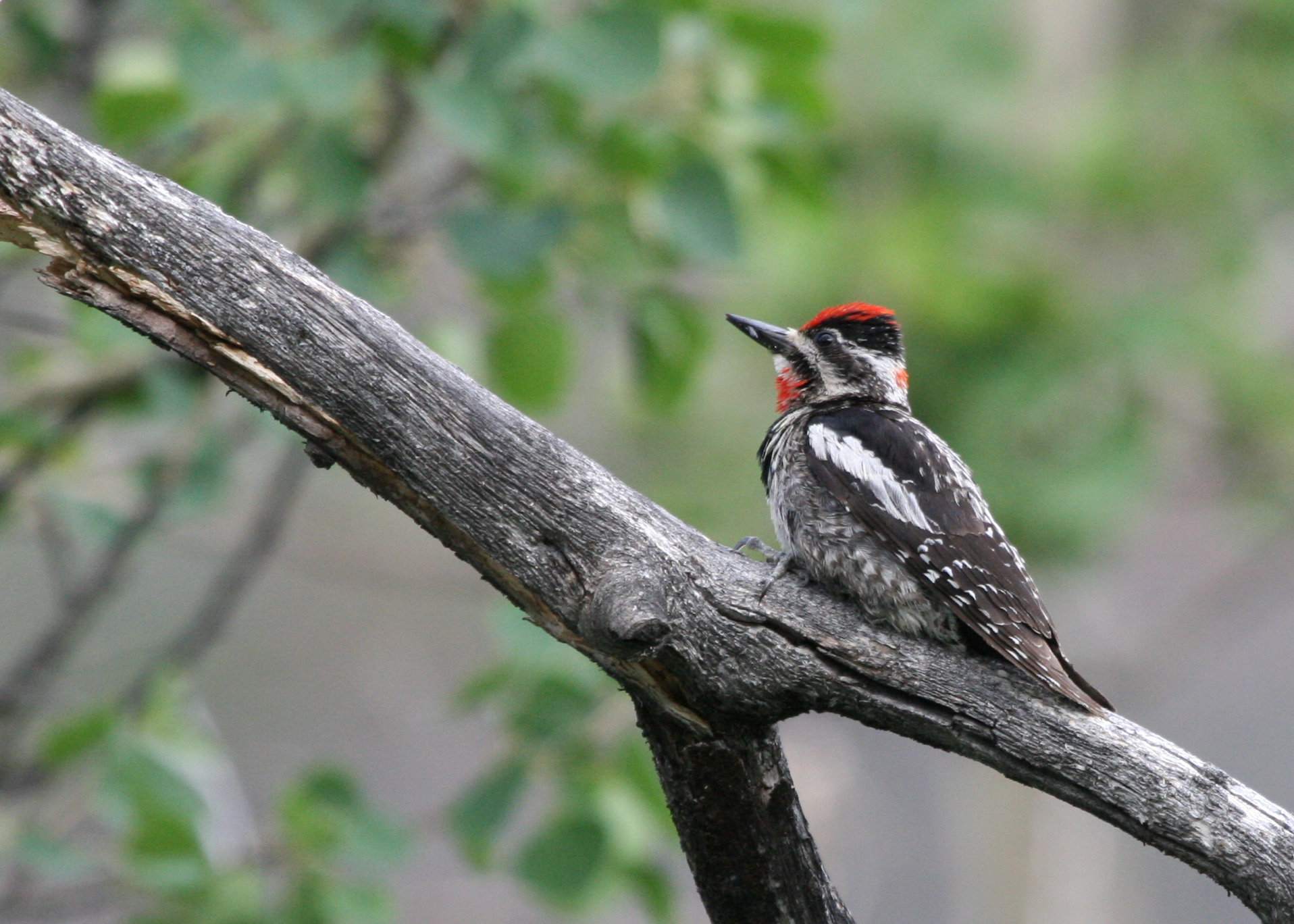 "Sapsuckers do not suck sap, but are specialized for sipping it. Their tongues are shorter than those of other woodpeckers, and do not extend as far out. The tip of the tongue has small hair-like projections on it that help pick up the sap, much like a paintbrush holds paint." - all about birds